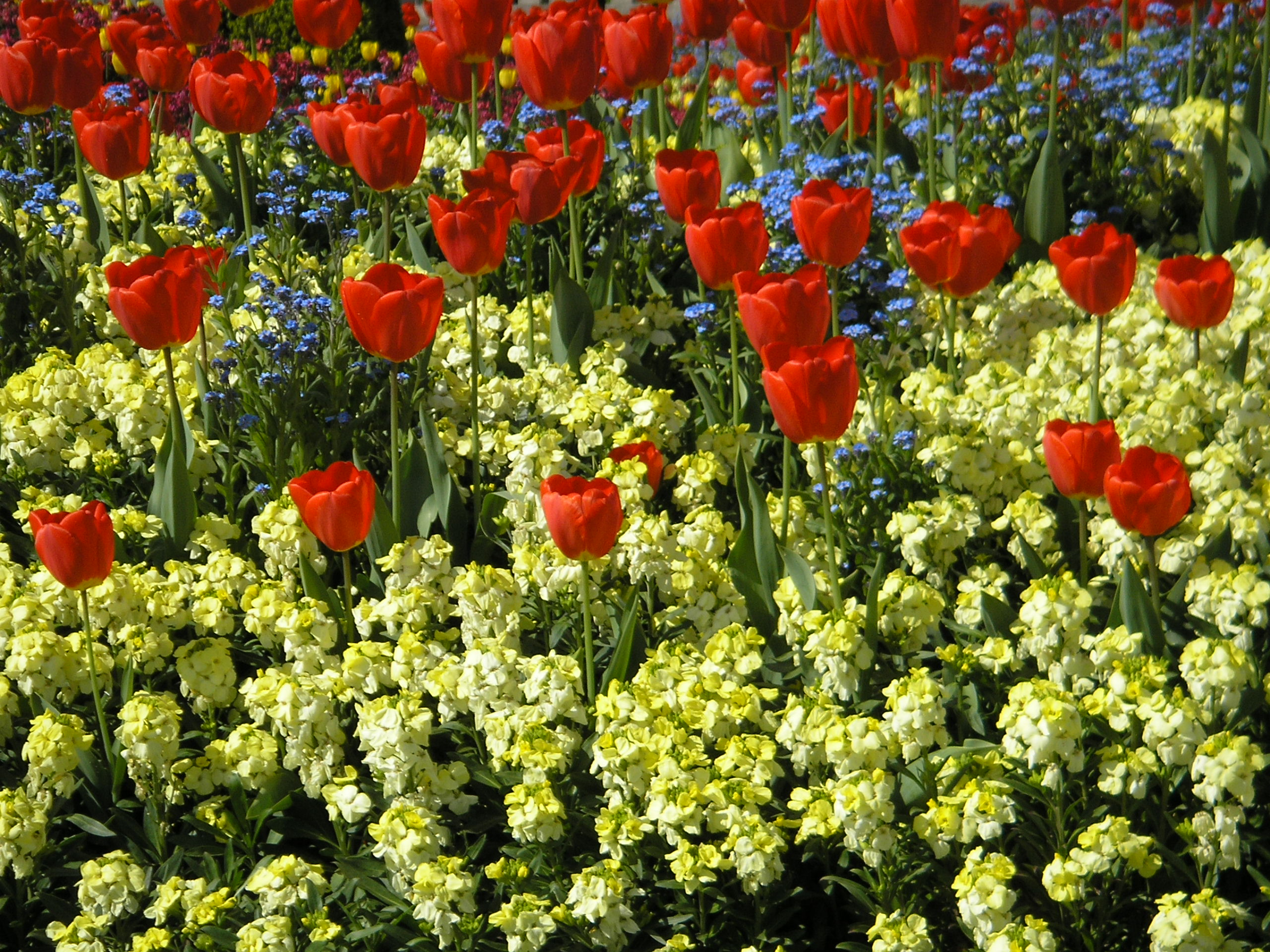 Flower beds at The Mall in London.